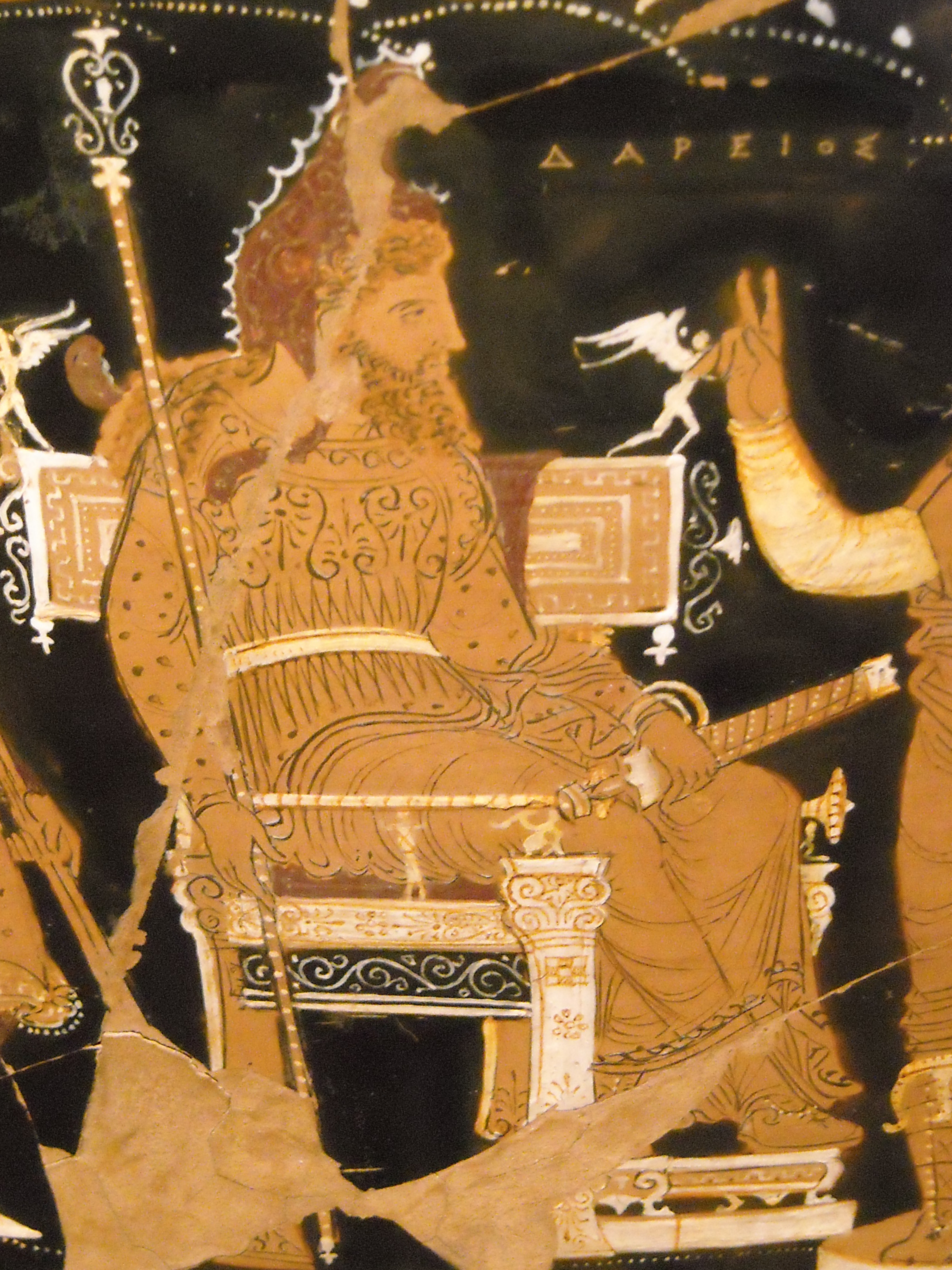 Darius detail on the Darius vase This image was originally posted to Flickr by Carlo Raso at (archive). It was reviewed on 30 November 2018 by FlickreviewR 2 and was confirmed to be licensed under the terms of the cc-by-sa-2.0.